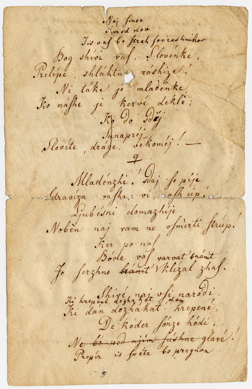 Tha Manuscript of Zdravica by France Prešeren; manuscript number 3, paper 3 of 4.